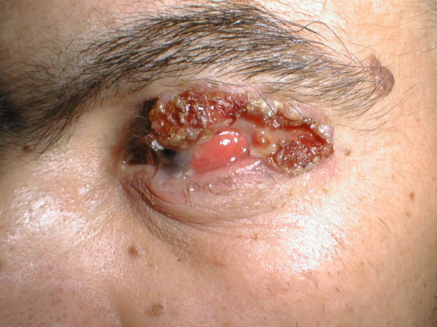 Advanced eyelid basalioma destroying lateral canthus and spreading to conjunctiva